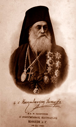 Joachim III (1834-1912), Patriarch of Constantinople